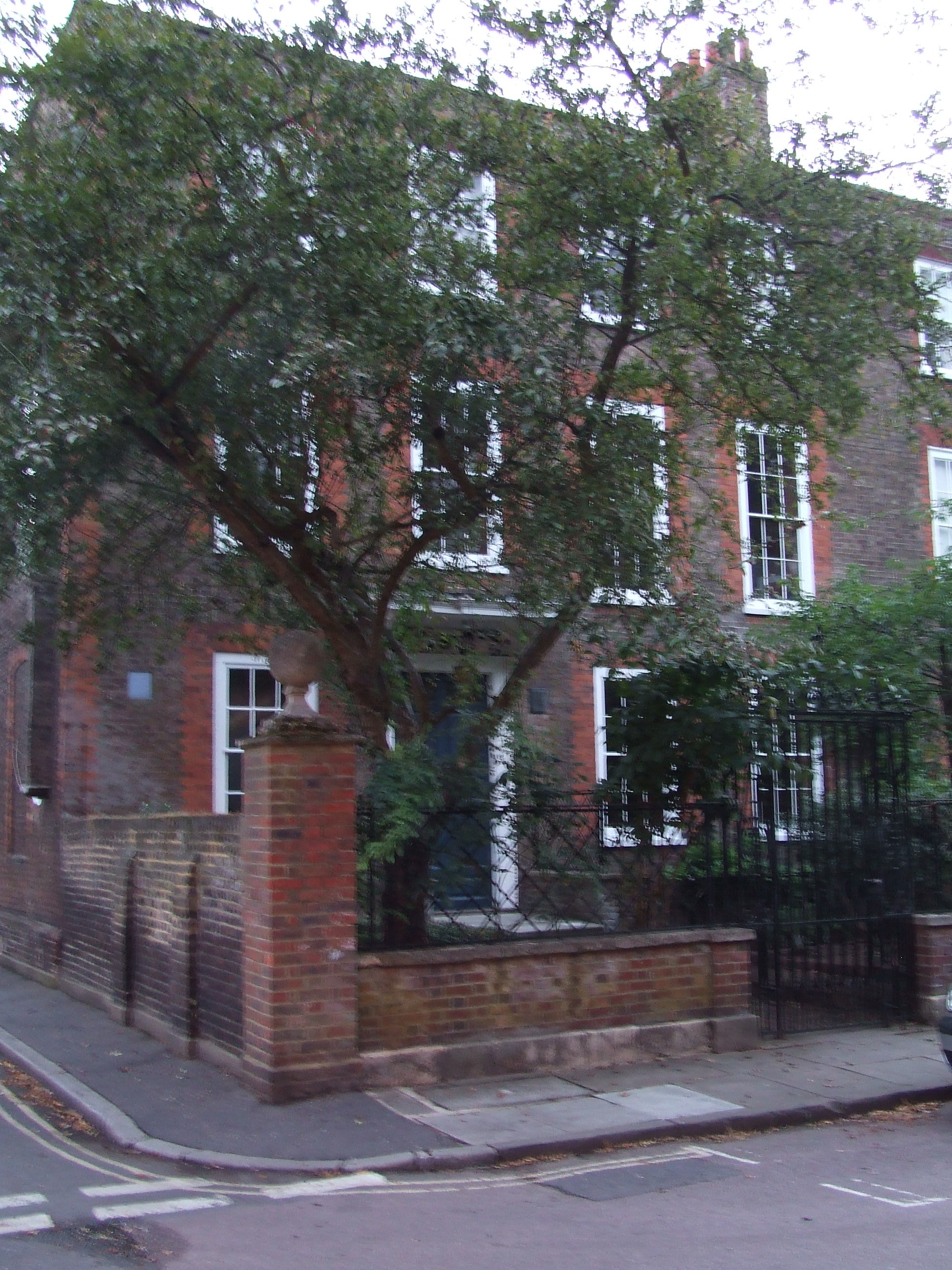 15 Montpelier Row in Twickenham, England. Once home of Alfred Lord Tennyson.